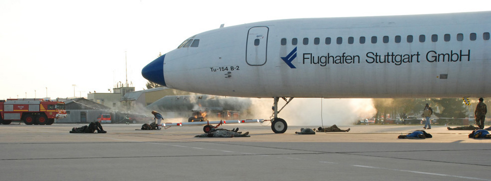 As part of the Stallion Shake 2008 exercise held by U.S. Army Garrison Stuttgart, Germany, a C-17 Globemaster - substituted by a civilian aircraft - with 31 Department of Defense civilians and servicemember lands at Stuttgart Army Airfield and is hit by a 220-pound vehicle borne improvised explosive device